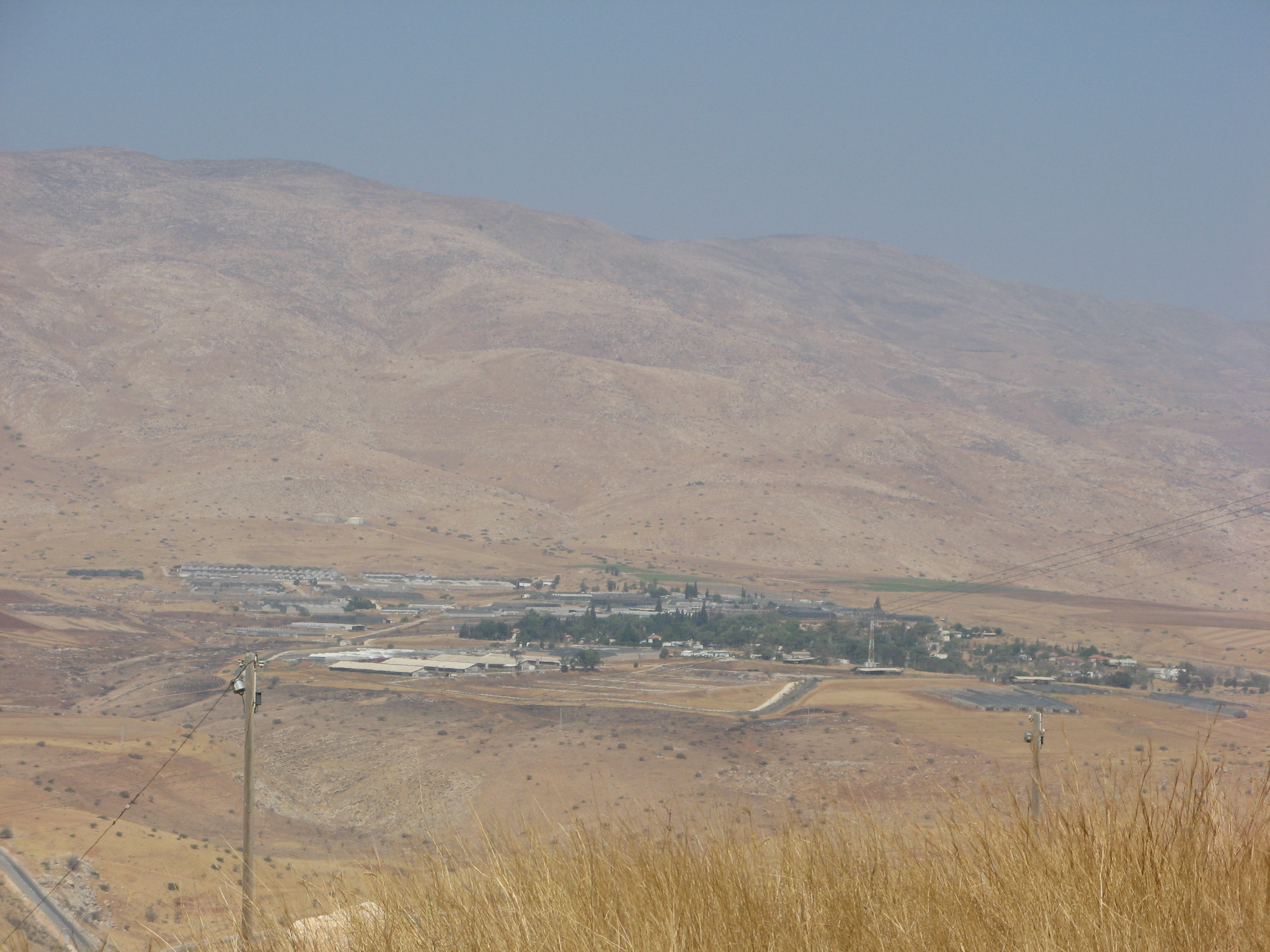 Moshav Hamra from above